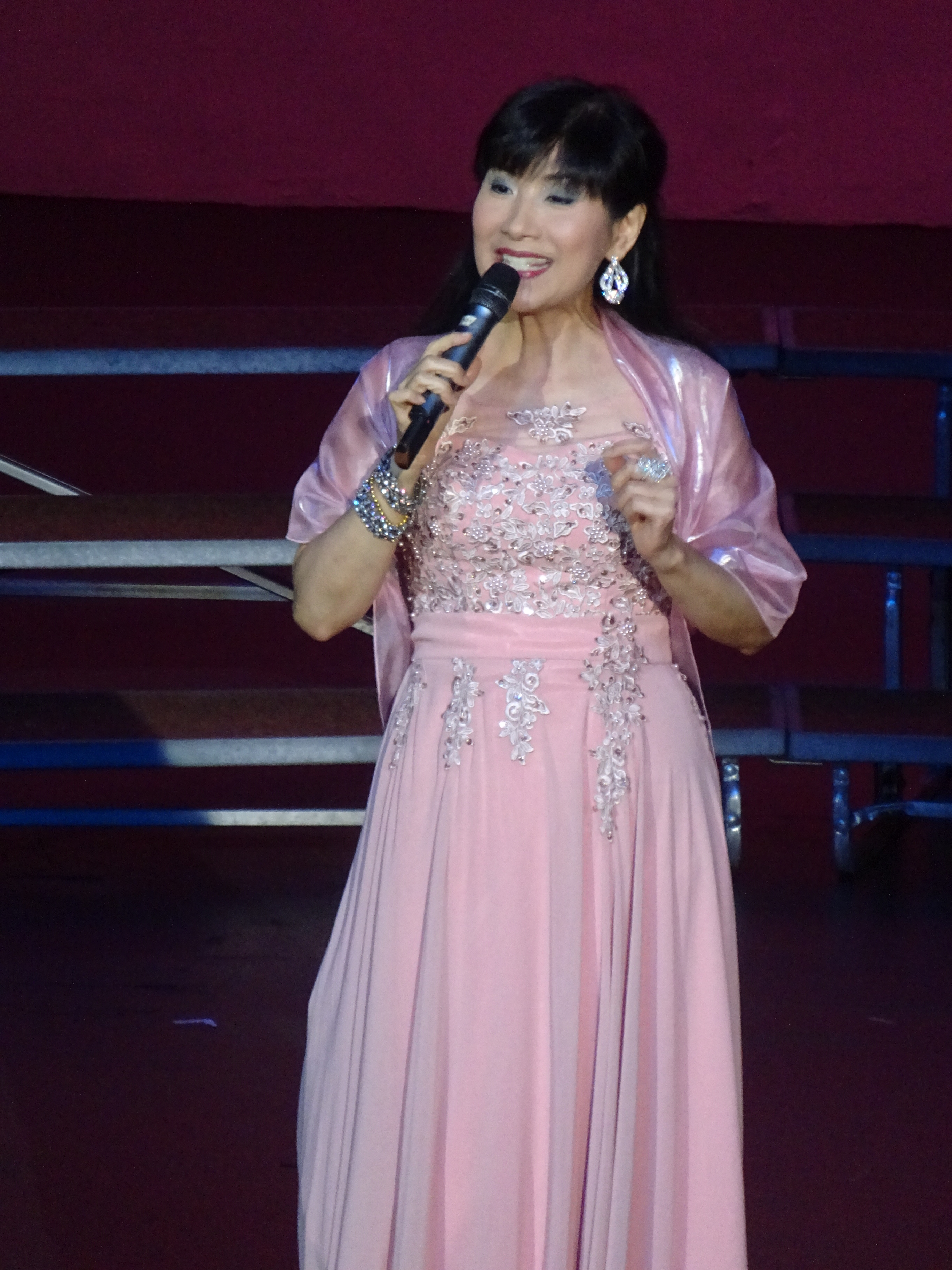 方伊琪, Cecilia Fong Yi Kei, Singing song in Sheung Wan Civic Centre, Sheung Wan, Hong Kong